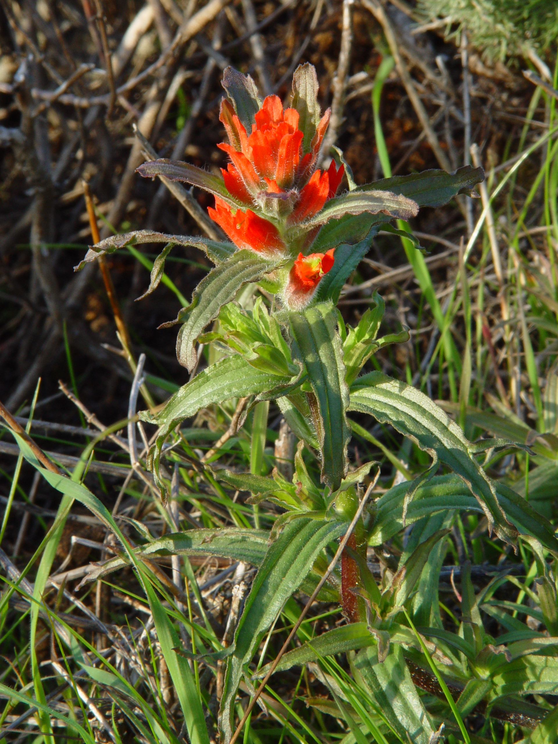 Coast paintbrush (Castilleja affinis) Family: Scrophulariaceae Oak valley, Marin County, California. Note: Picture taken on Christmas Day!